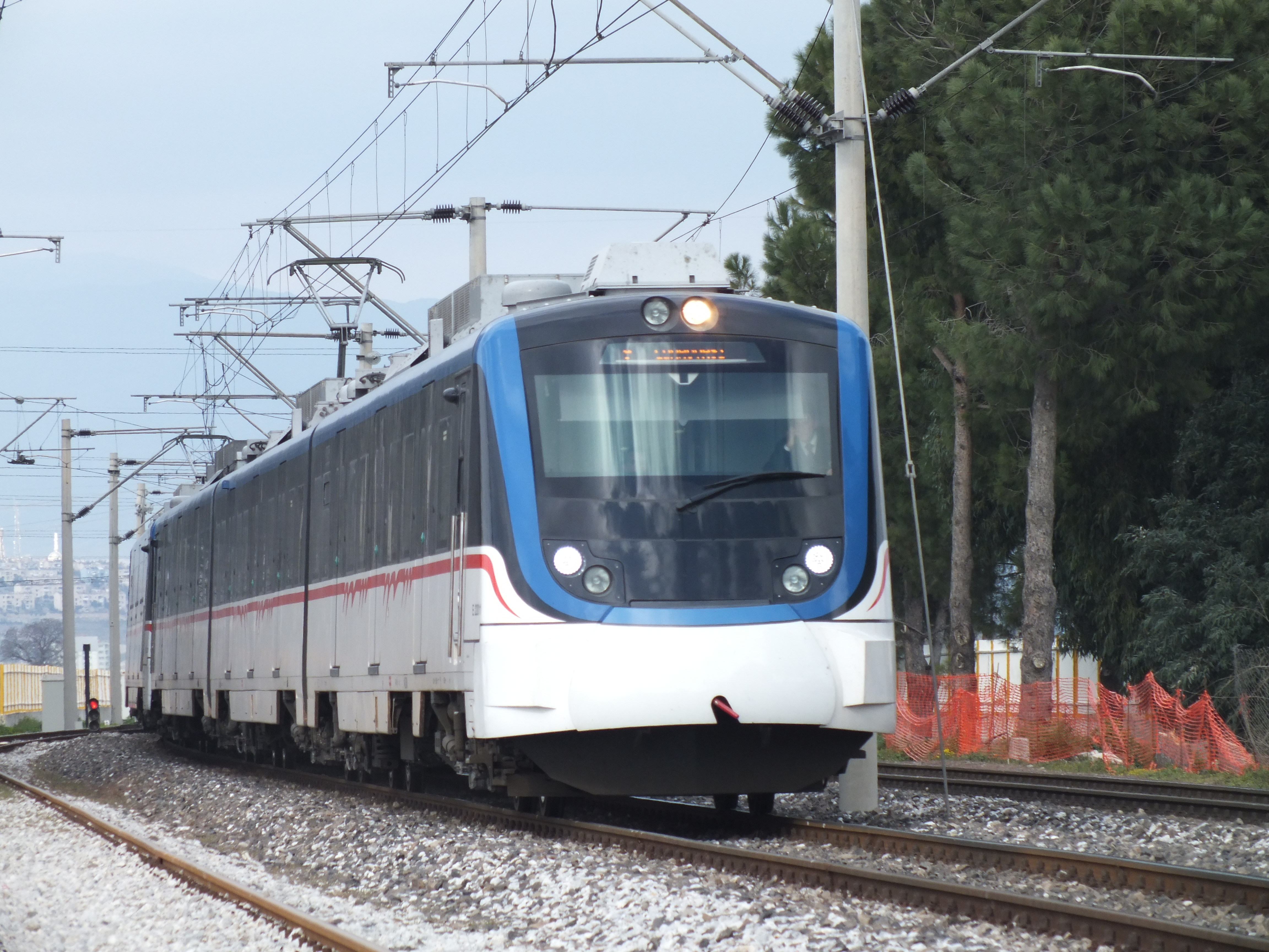 Alsancak bound IZBAN train arriving at Ulukent.